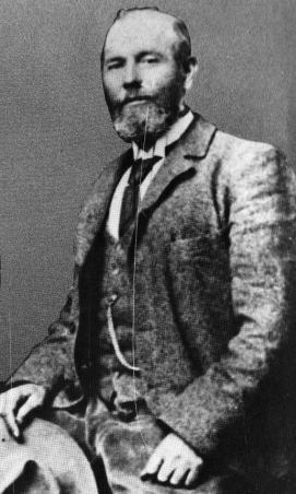 Picture of George St Leger Gordon Lennox also known as Scotty Smith